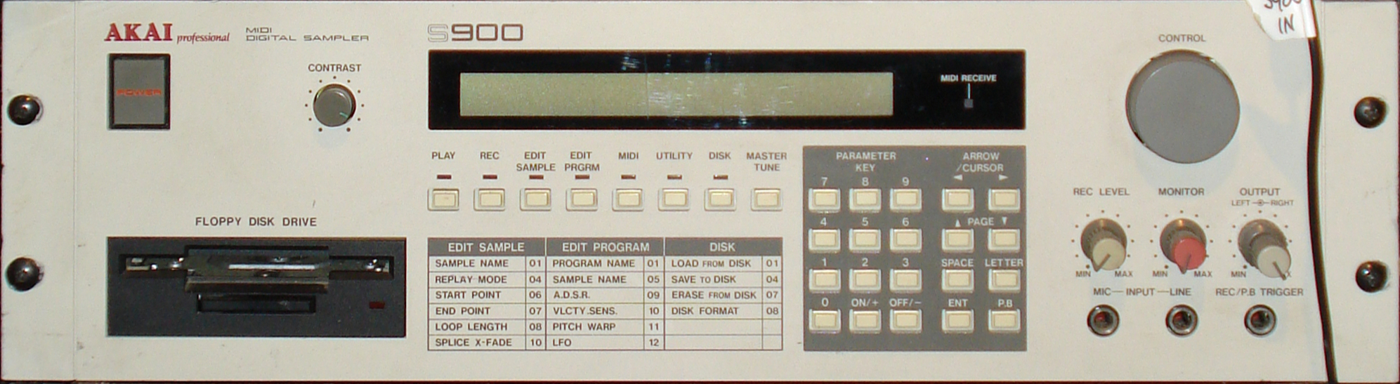 AKAI S900 clipped from: Shawn Rudiman's Studio, Pittsburgh, PA